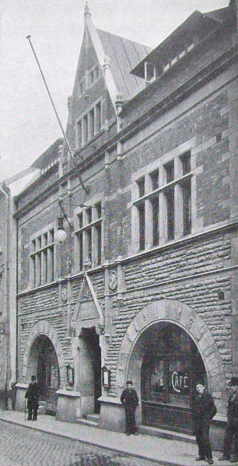 Picture of Arbetarinstitutet in Stockholm